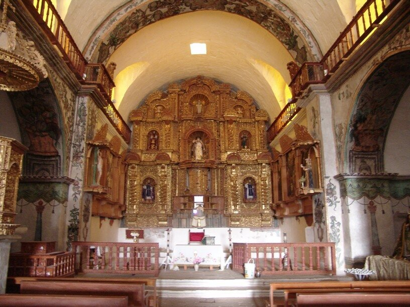 The church Santa-Ana de Mca